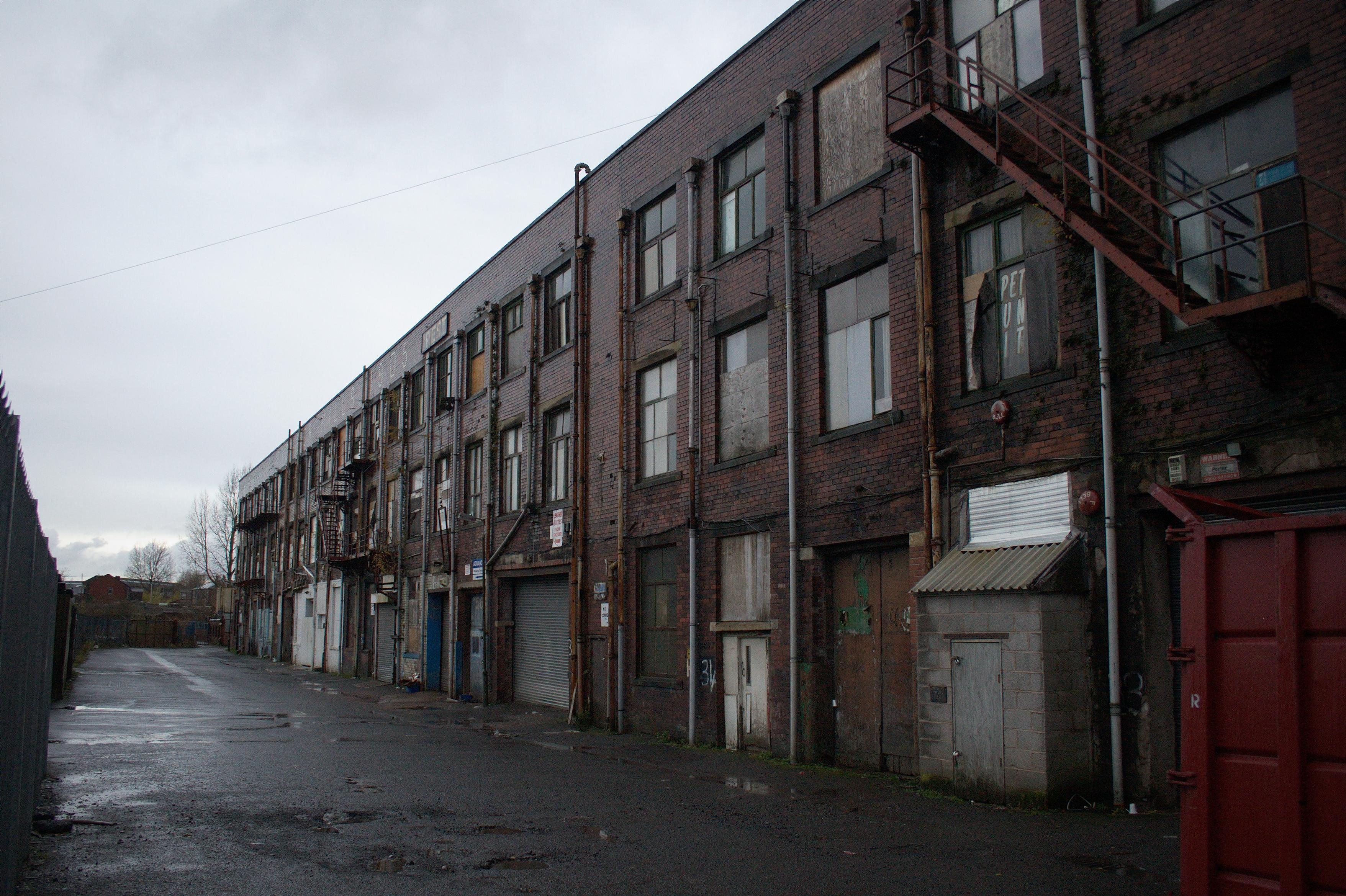 The Pioneer Mills in Radcliffe, Greater Manchester, on a wet sunday afternoon.